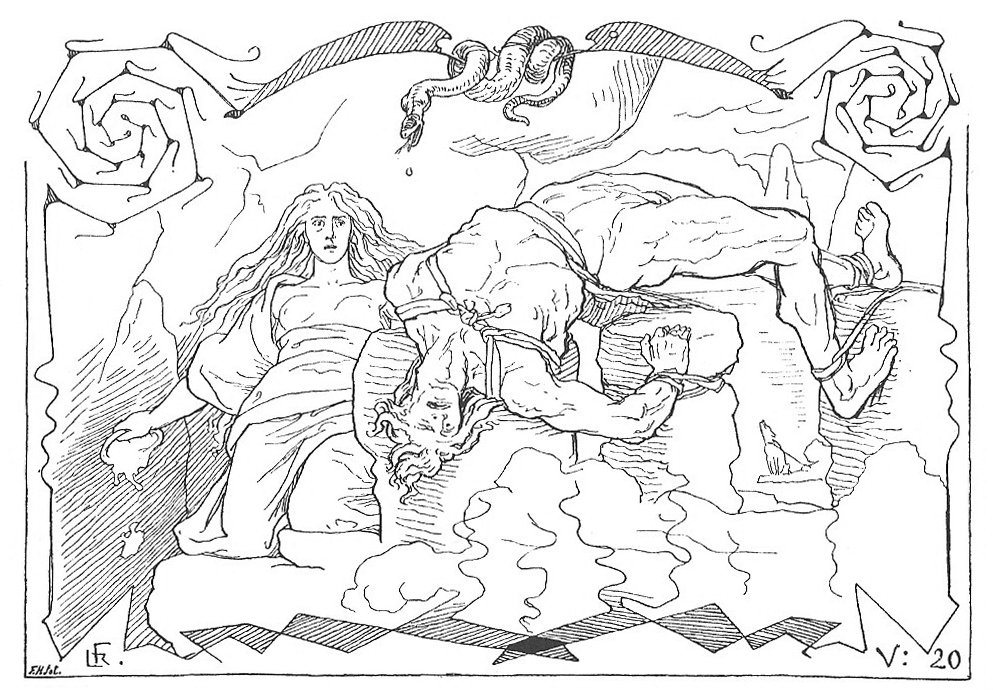 Sigyn is emptying her cup as a drop of poison falls on the bound Loki.